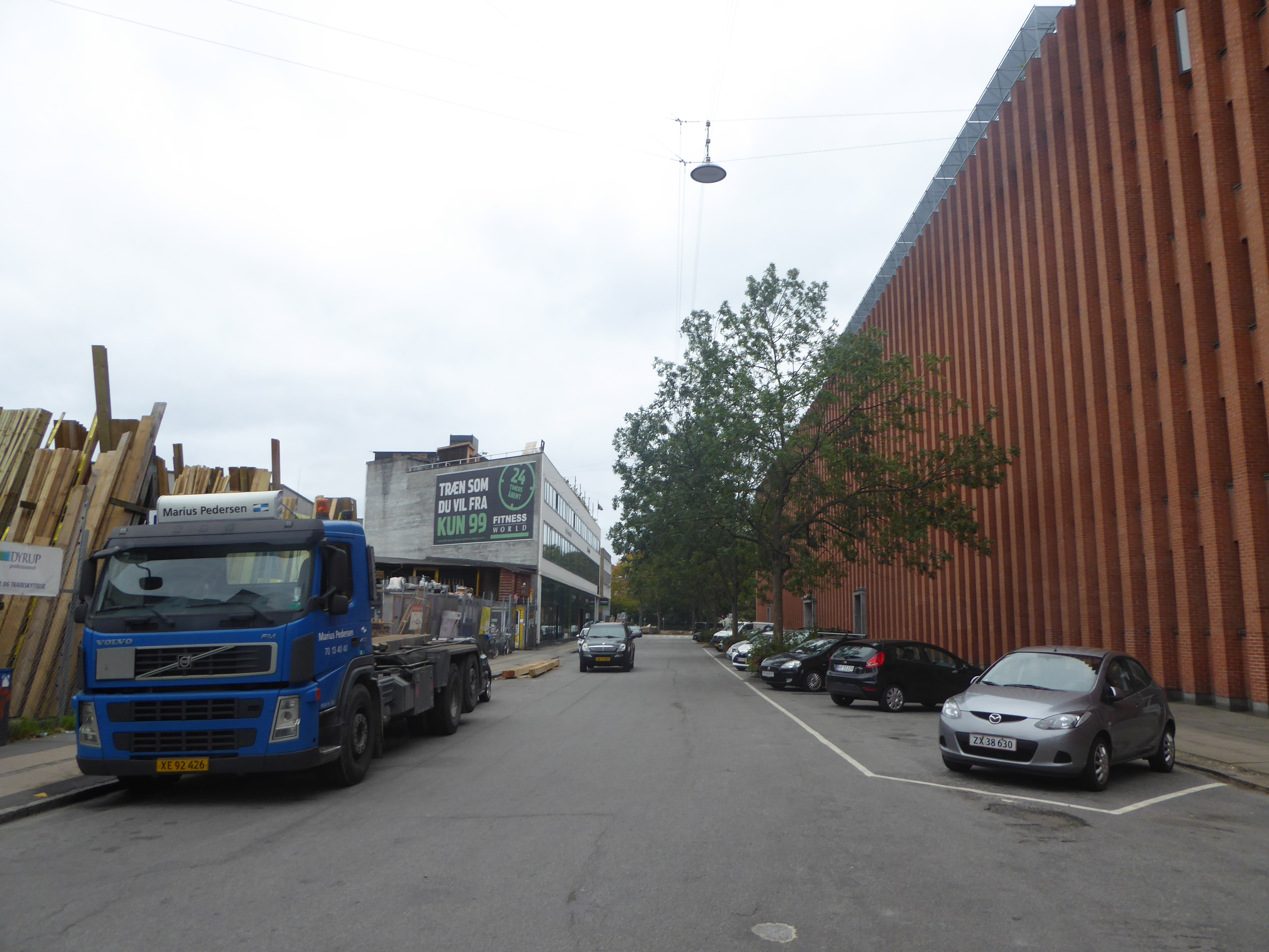 The street Æbeløgade in Østerbro in Copenhagen.